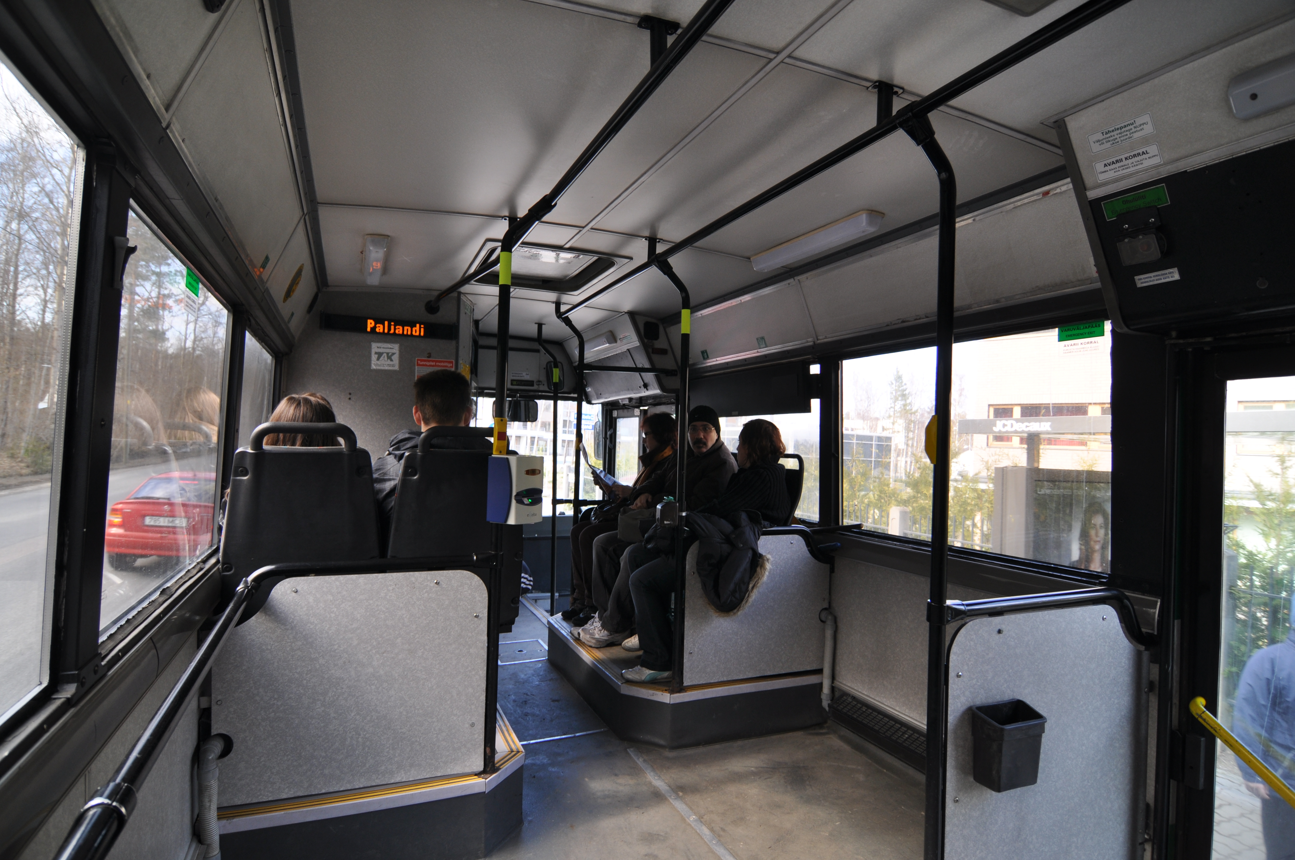 Interior of Tallinn Bus Company's Scania bus near Paljandi bus stop in Õismäe.